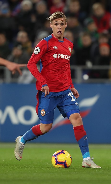 Arnór Sigurðsson